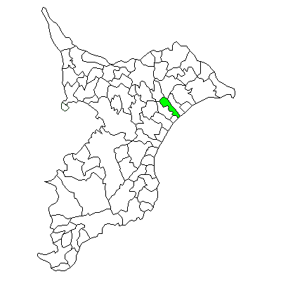 Location Map of former Yokoshiba Town, Chiba Prefecture, Japan, now part of Yokoshibahikari Town.